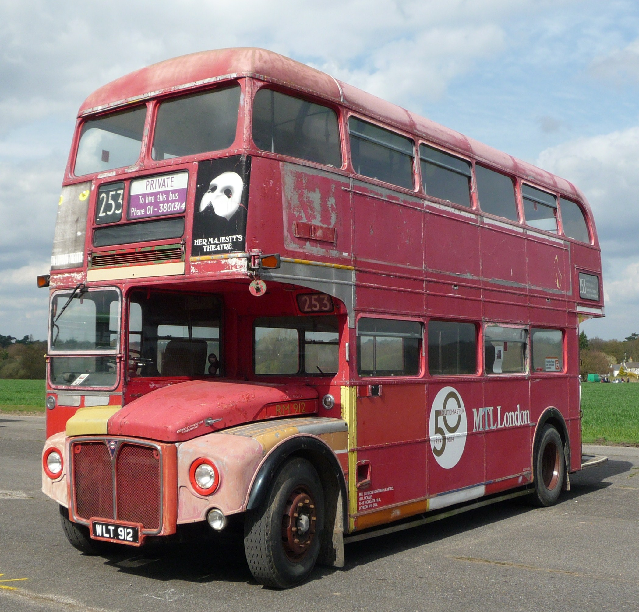 Preserved MTL London RM912 (WLT 912), an AEC Routemaster, at the 2009 Cobham bus rally at Wisley Airfield.